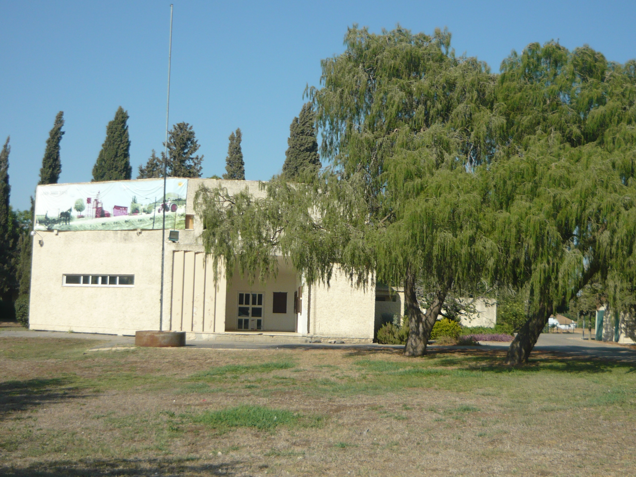 hayogev בית העם במושב היוגב